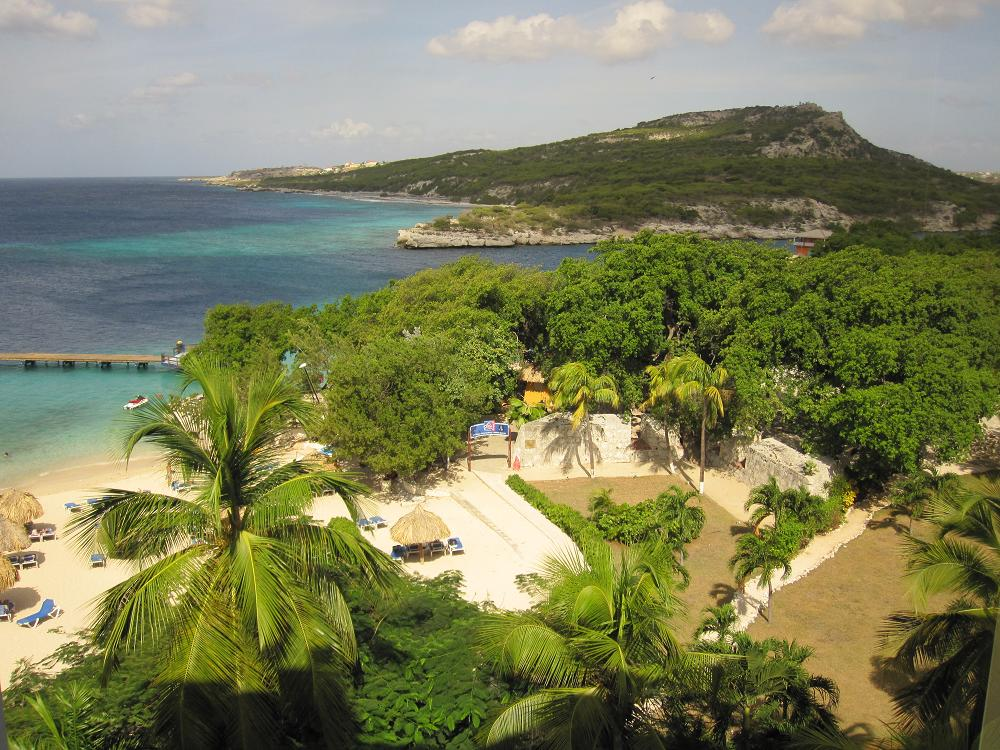 View from Hilton Curaçao of Piscadera Fort and Bay